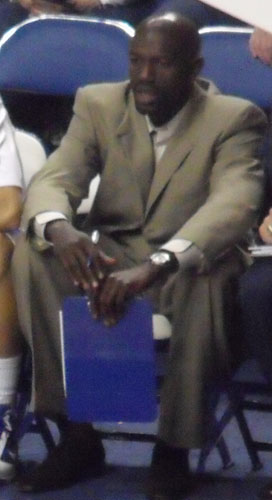 Tony Delk as part of John Calipari's staff with the Kentucky Wildcats